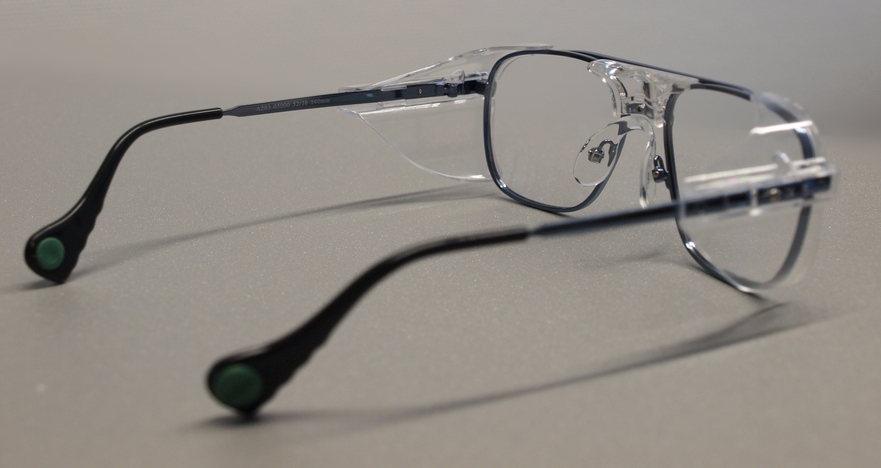 Side view of prescription safety spectacles by manufacturer Polycore Optical